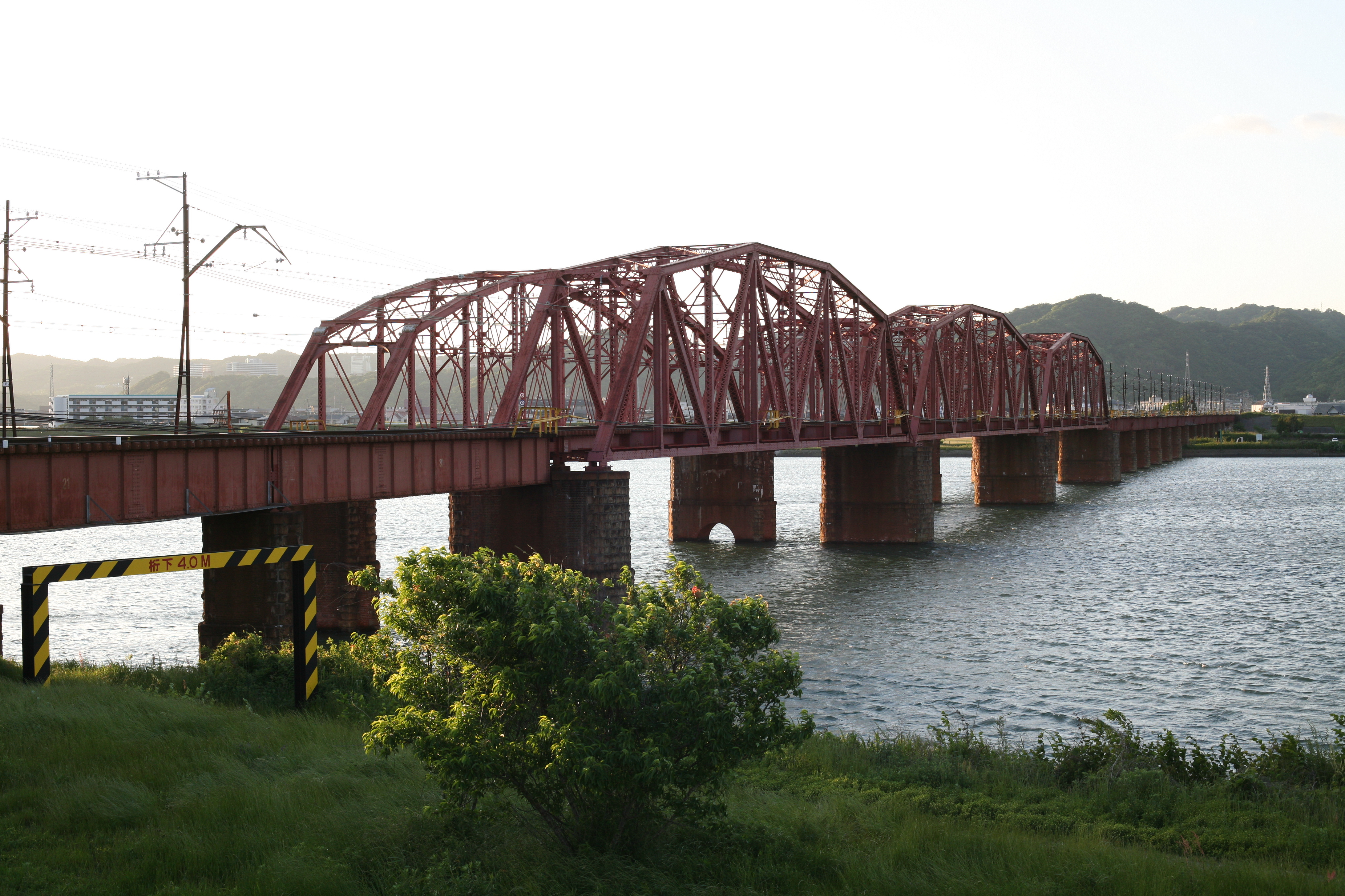 Kinokawa Bridge,Down line of Nankai_Main_Line in Wakayama Pref.,Japan.